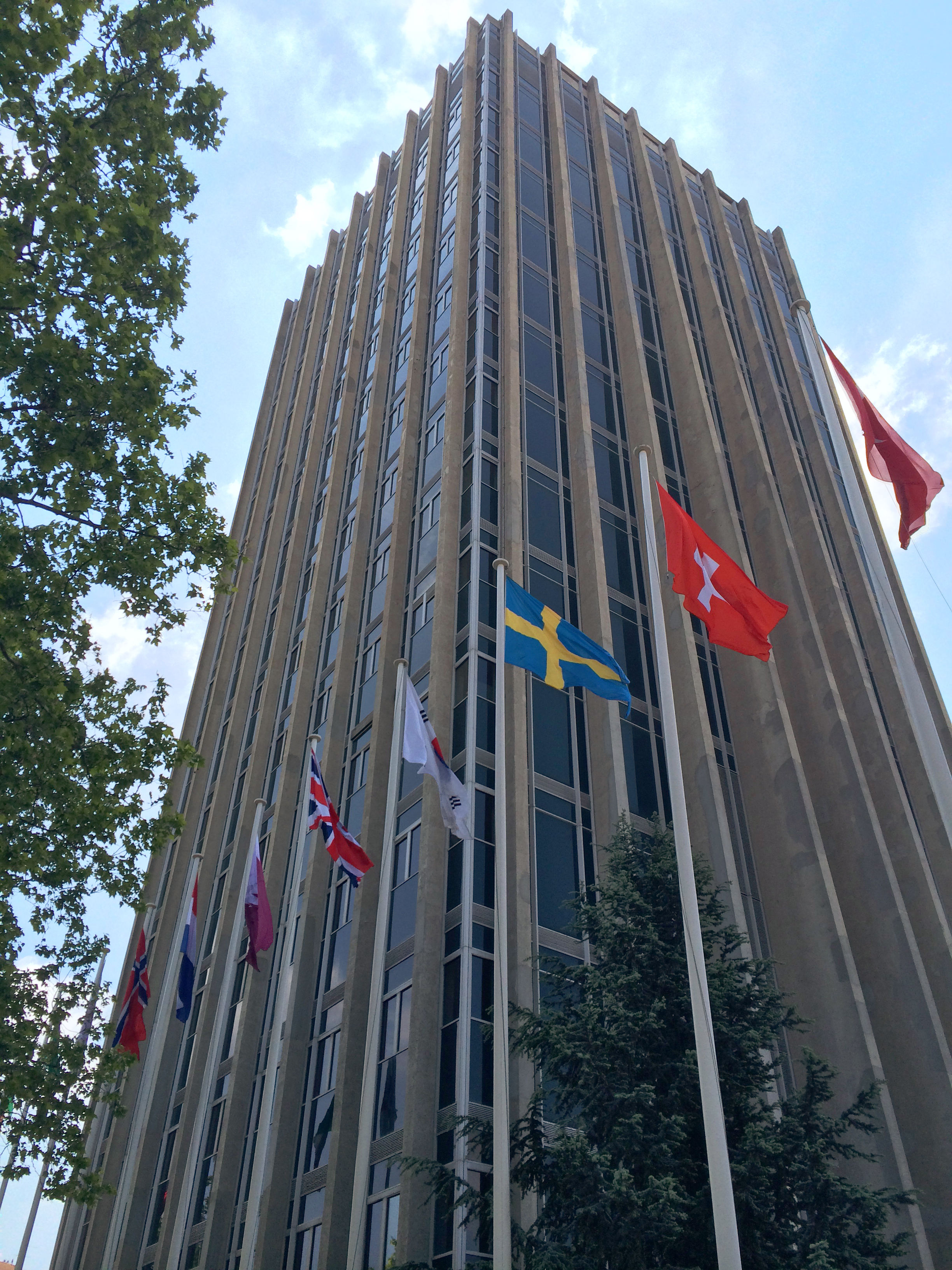 The exterior of the main building ("the Tower") of the International Agency for Research on Cancer (IARC) headquarters in Lyon, France